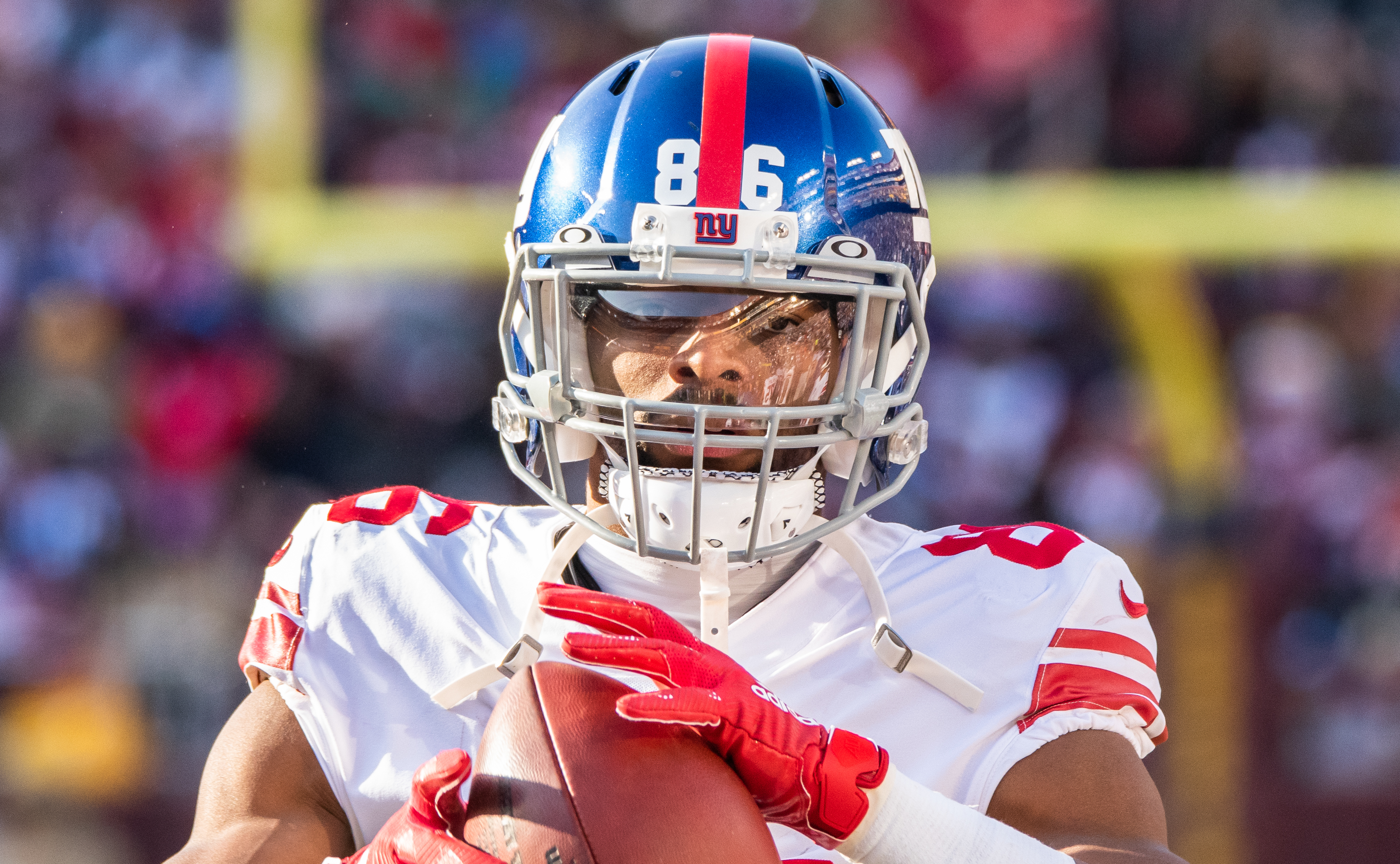 In 2019